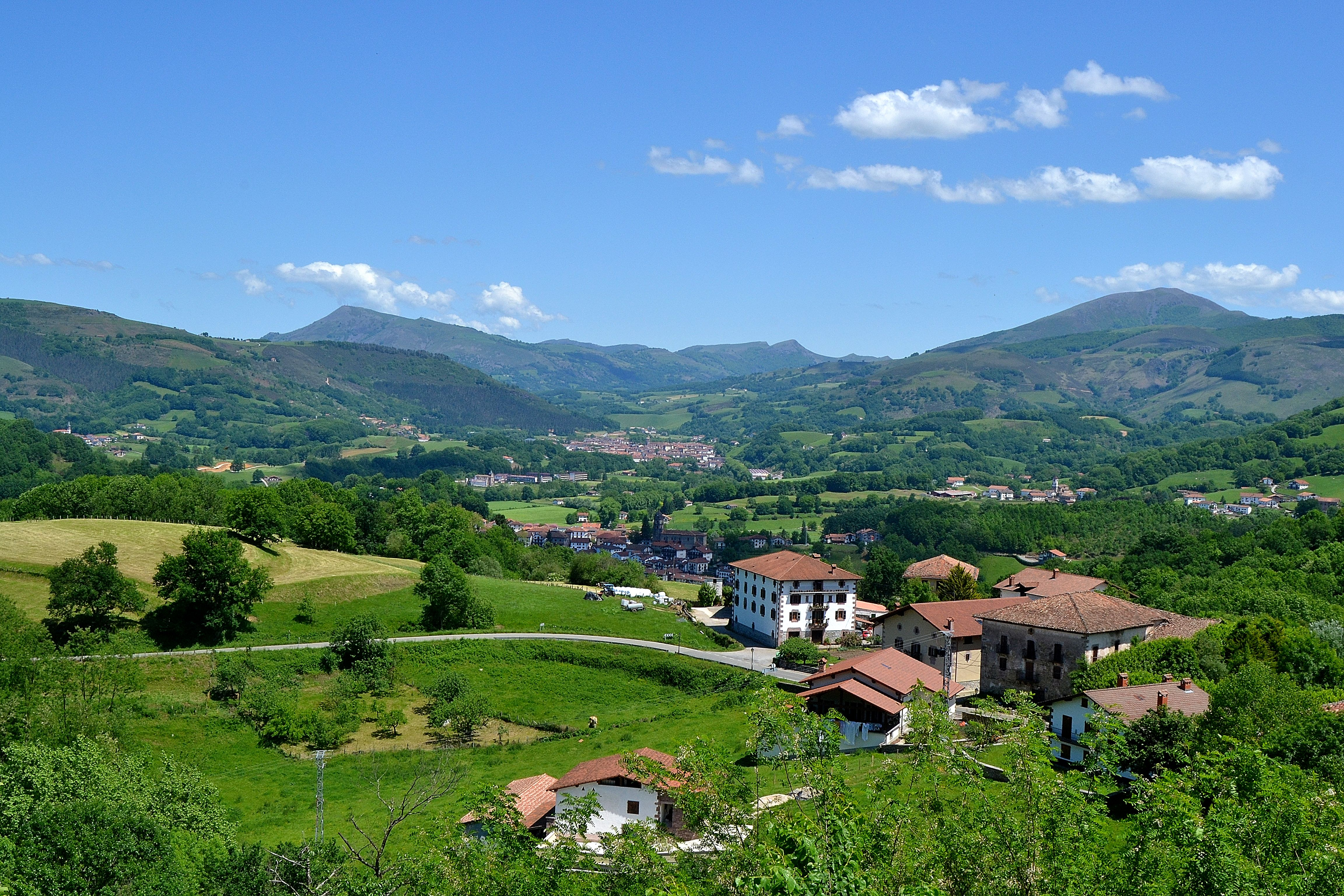 View of Bastan valley from Zigaurre. Navarre, Basque country.